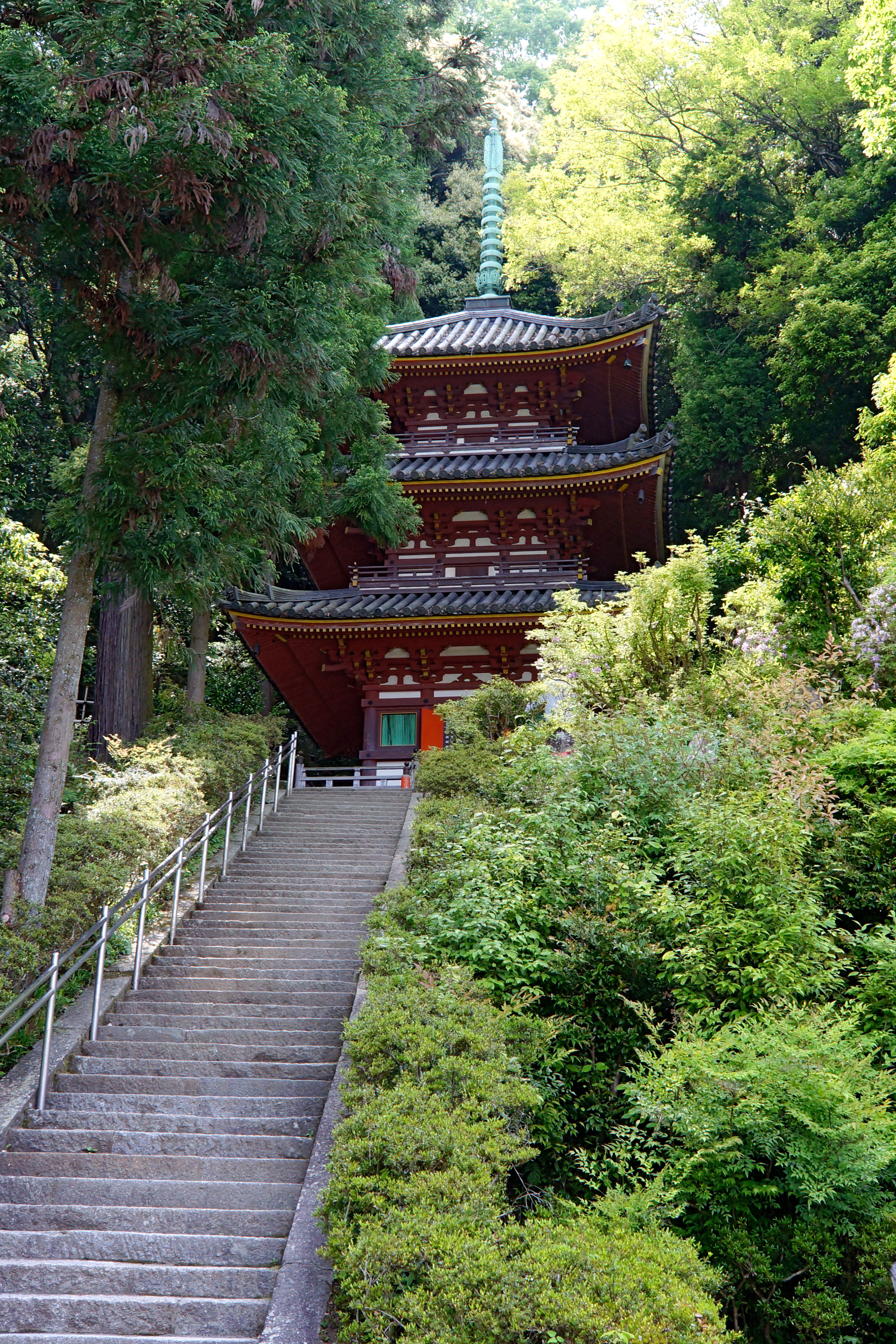 Matsuo-dera in Yamatokoriyama, Nara prefecture, Japan.